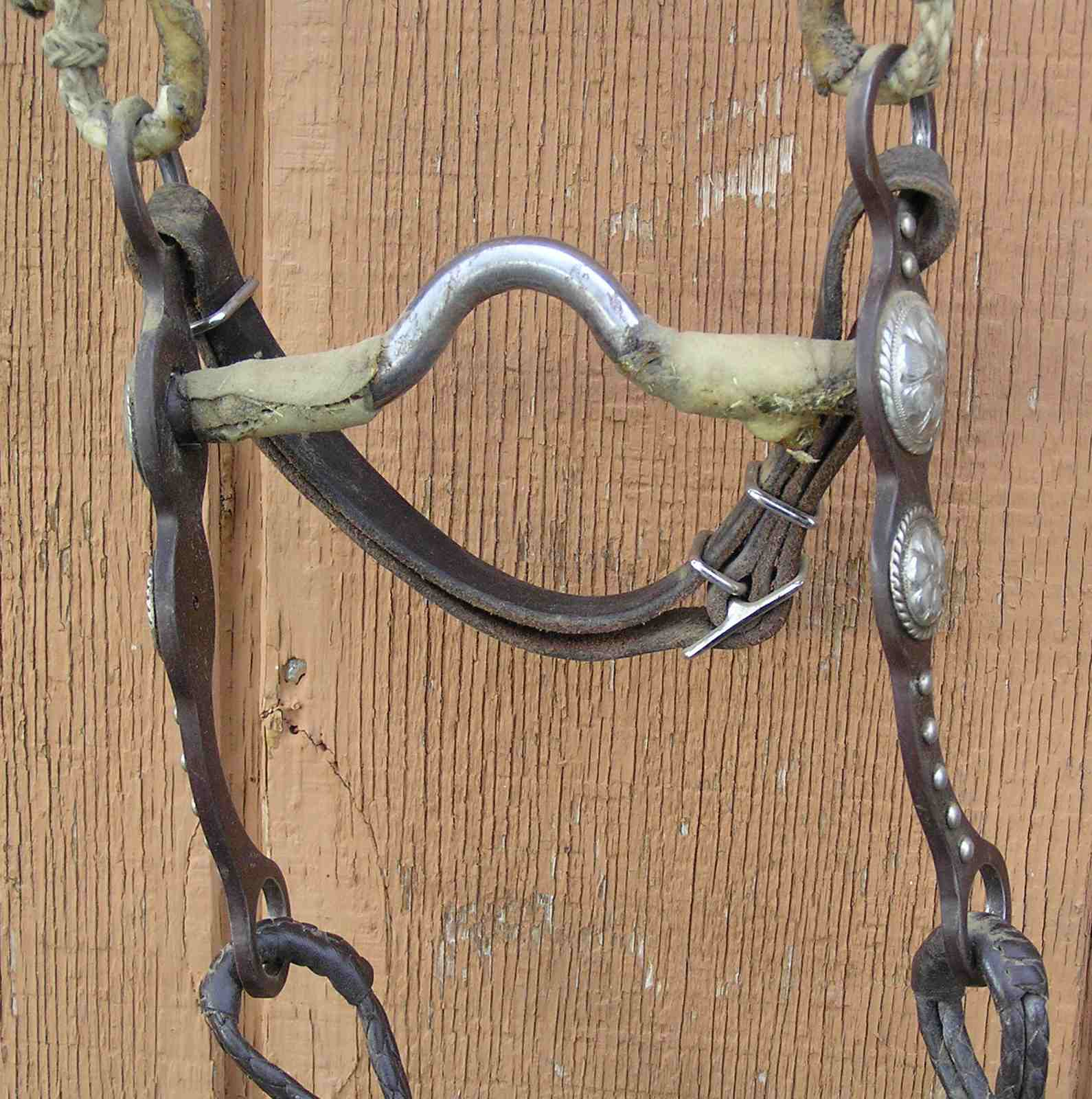 traditional low port western style curb bit